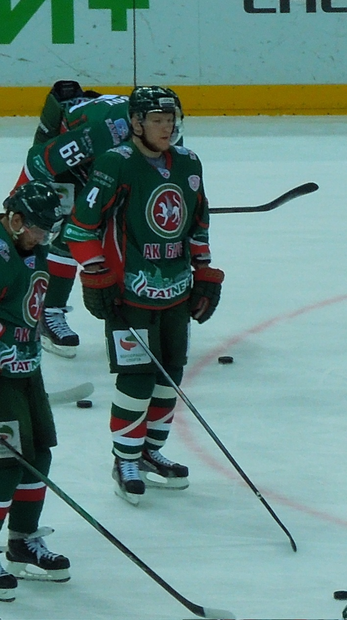 Belorussian professional ice hockey player Vladimir Denisov